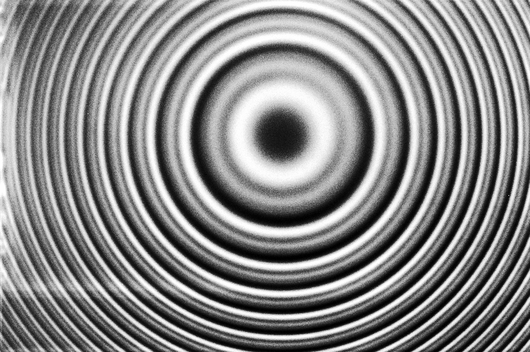 Fabry-perot interferometer/etalon fringes produced using a supercooled, deuterium light source, showing fine structure.